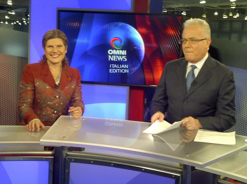 Journalist